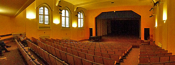 A view of the auditorium of the Rudolf Steiner Theatre